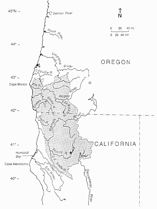 Map of the Klamath Mountains Geologic Province (shaded). Located in northwestern California and southwestern Oregon.